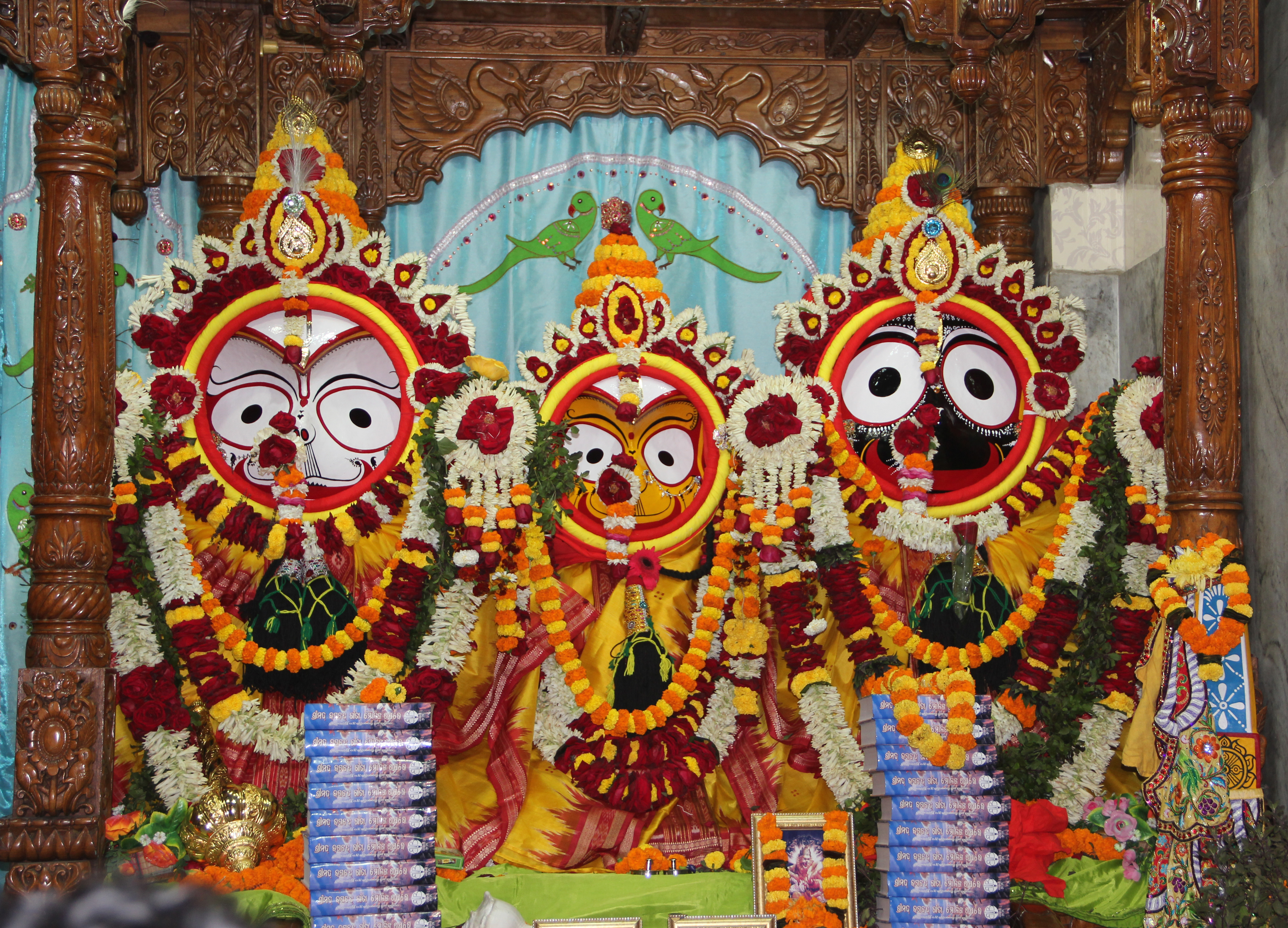 ଓଡ଼ିଆ: ISKCON Bhubaneswar This media file is uploaded with Odia loves Wikipedia English |italiano |македонски |മലയാളം |ଓଡ଼ିଆ +/−